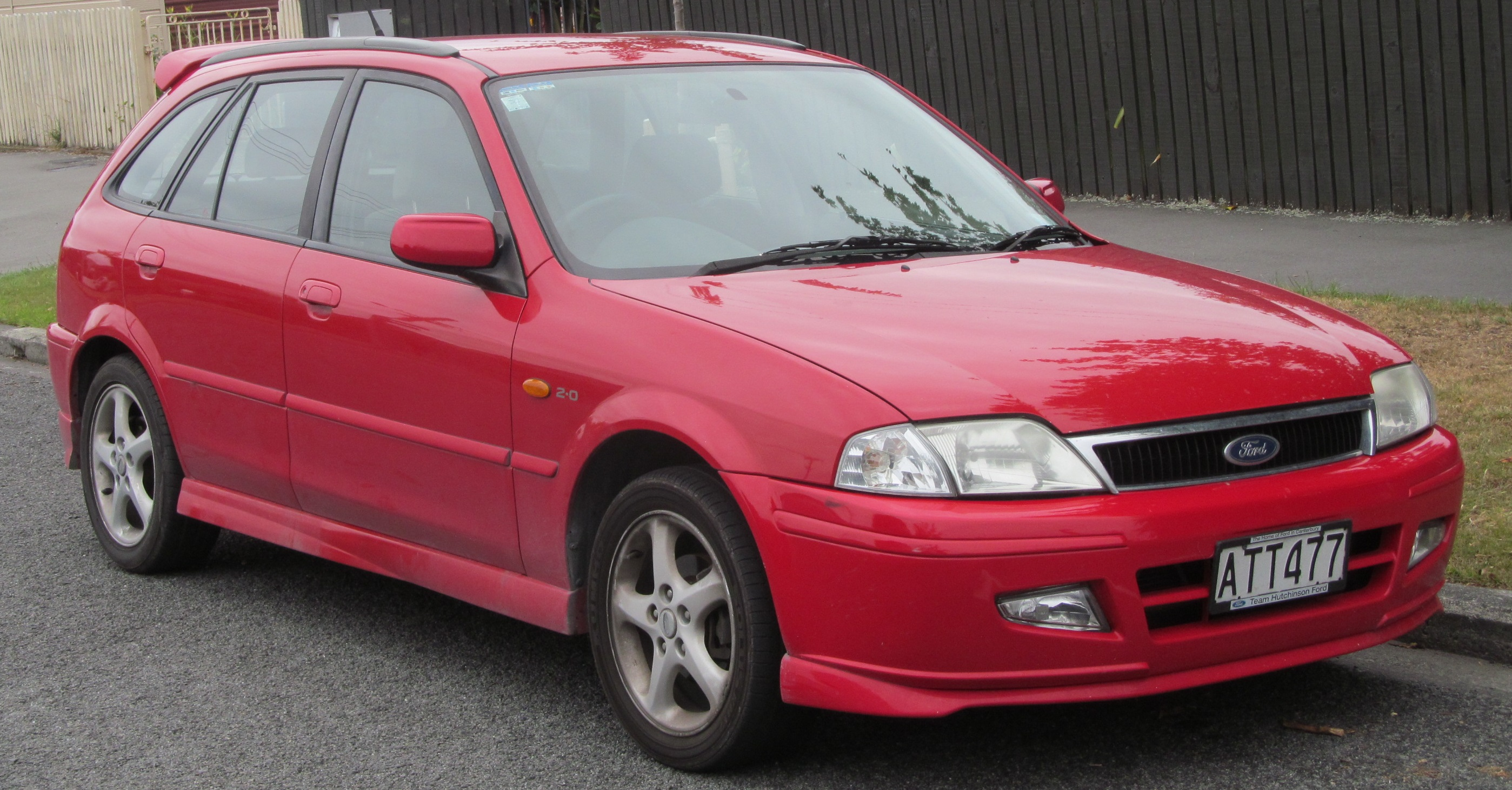 2002 Ford Laser XRi